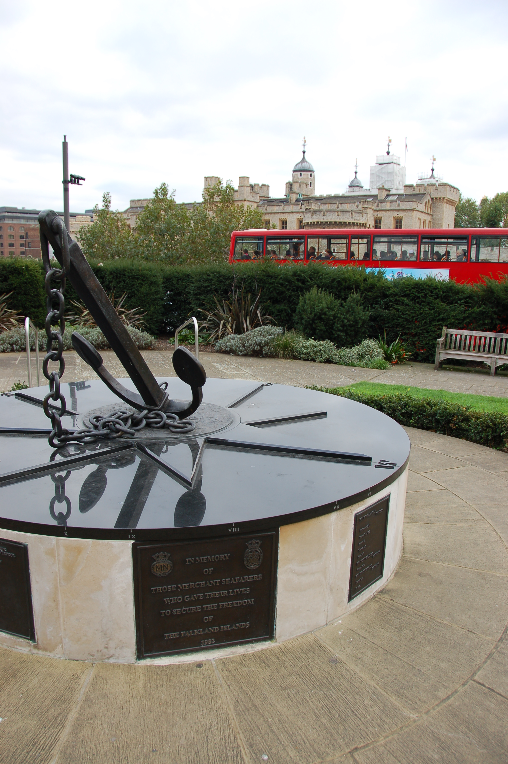 part of the Tower Hill Memorial in London, UK